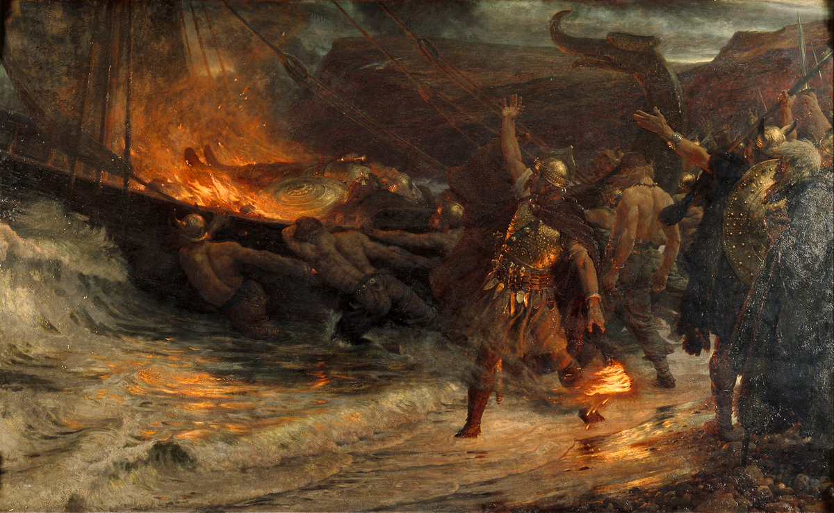 Dark and dramatic depiction of the funeral of a Viking, his body being set to sea on a burning pyre. Standing on the shore, to the right of the composition, are a crowd of Viking men and soldiers with arms and weapons raised as the burning ship carrying the body is pushed out. Most prominent of these figures is that of an armoured man standing forward of the crowd, wearing a crested helmet and a breast-plate with raised ornamentation, with his right arm raised and holding a flaming torch in his left. The boat, with a stern carved into the form of the head of a mythical beast, is hauled into the rough sea by muscular male figures; the recumbent body of the dead Viking, fully armoured, is surrounded by flames. In the background are austere, rocky mountains seen under a dark and stormy sky. Most of the scene is illuminated by the glow of the burning pyre and the torch of the foreground figure, which is reflected in the water and the glistening shore. Frame: designed by the artist: gilt, carved wood; decorated with classical motifs but also with a running chain pattern which is one of the features of the Viking Borre style of ornament, which flourished in the 9th and 10th centuries.